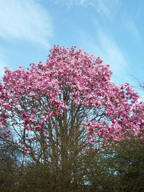 Trewidden Magnolia. Trewidden Gardens offer magnificent magnolias as well as a host of other stunning trees, shrubs and plants.